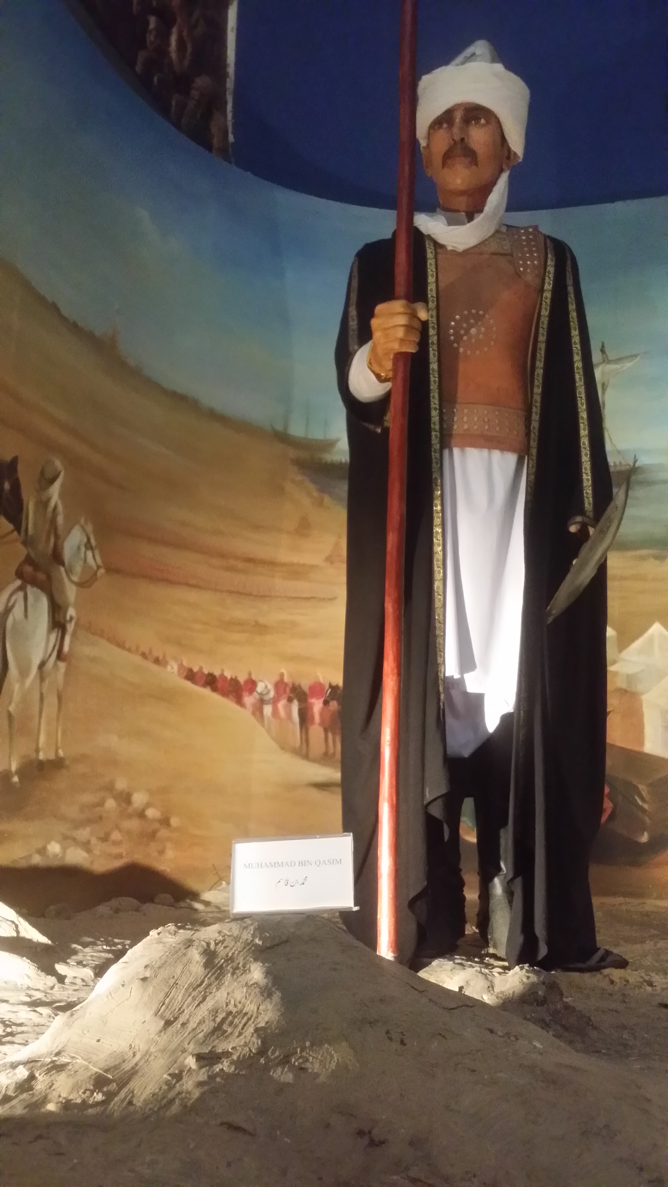 Pakistan Monument This is a photo of a monument in Pakistan identified as the ICT-4